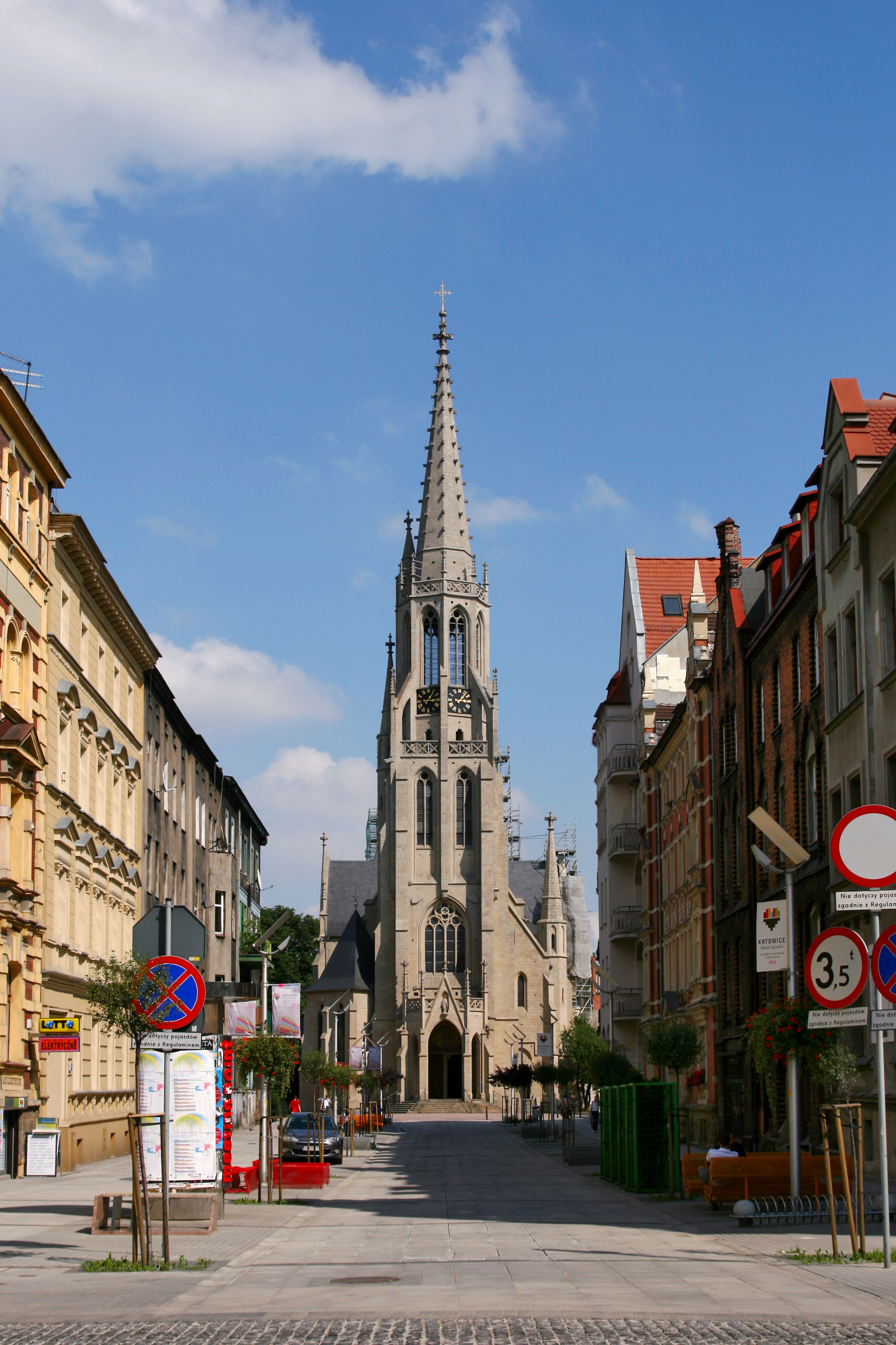 Mariacka Street in Katowice (Poland).